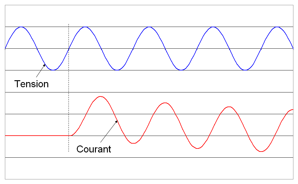 Asymmetrical current produced when fault occurs at zero voltage